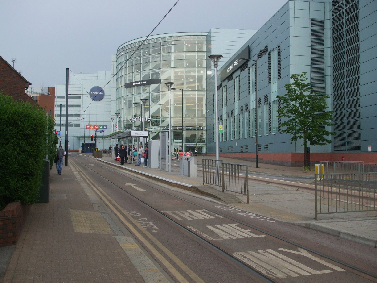 Centrale tram stop, southern entrance, with the Centrale shopping centre in Croydon town centre in the background. The tram stop has a one-way platform in the northbound direction, and is directly adjacent to a bus stop in the same direction.